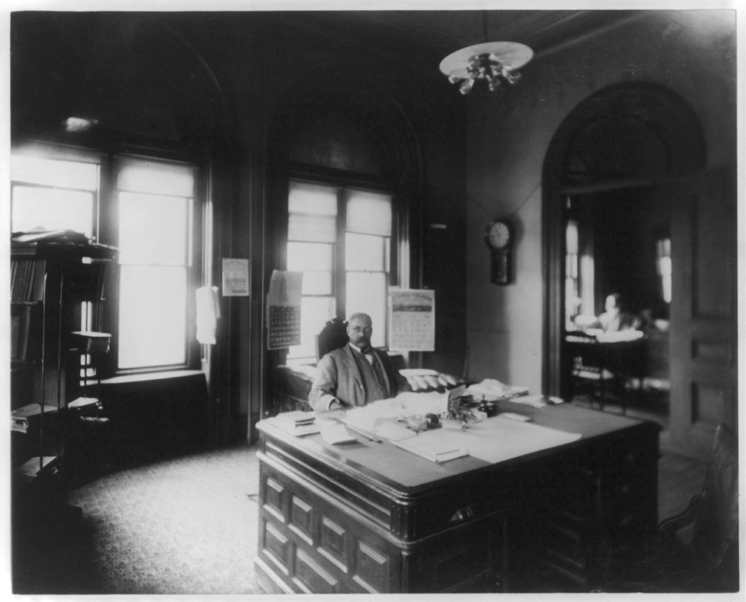 Title: Henry A. Rucker, internal revenue collector, Atlanta, Georgia, seated at large desk in office Physical description: 1 photographic print : gelatin silver. Notes: Forms part of: Daniel Murray Collection (Library of Congress).; Title identification information from Photography on the Color Line.; Published in: Photography on the color line / Shawn M. Smith. Durham: Duke University Press, 2004, p. 5.; In album (disbound): Negro life in Georgia, U.S.A., compiled and prepared by W.E.B. Du Bois, v. 3, no. 281.; B&w copy prints for LOT 11930 are provided as surrogates of original photographs for reference use in P&P Reading Room. A microfilm surrogate is also available.